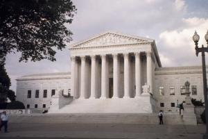 United States Supreme Court